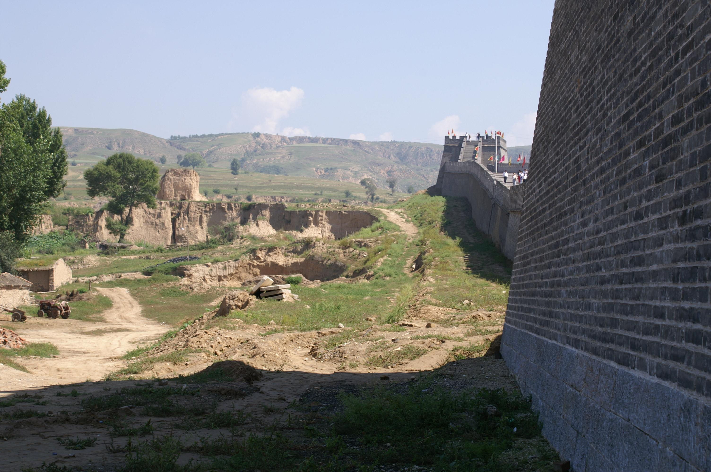 The great wall of china at the border crossing between Shanxi province and Inner Mongolia